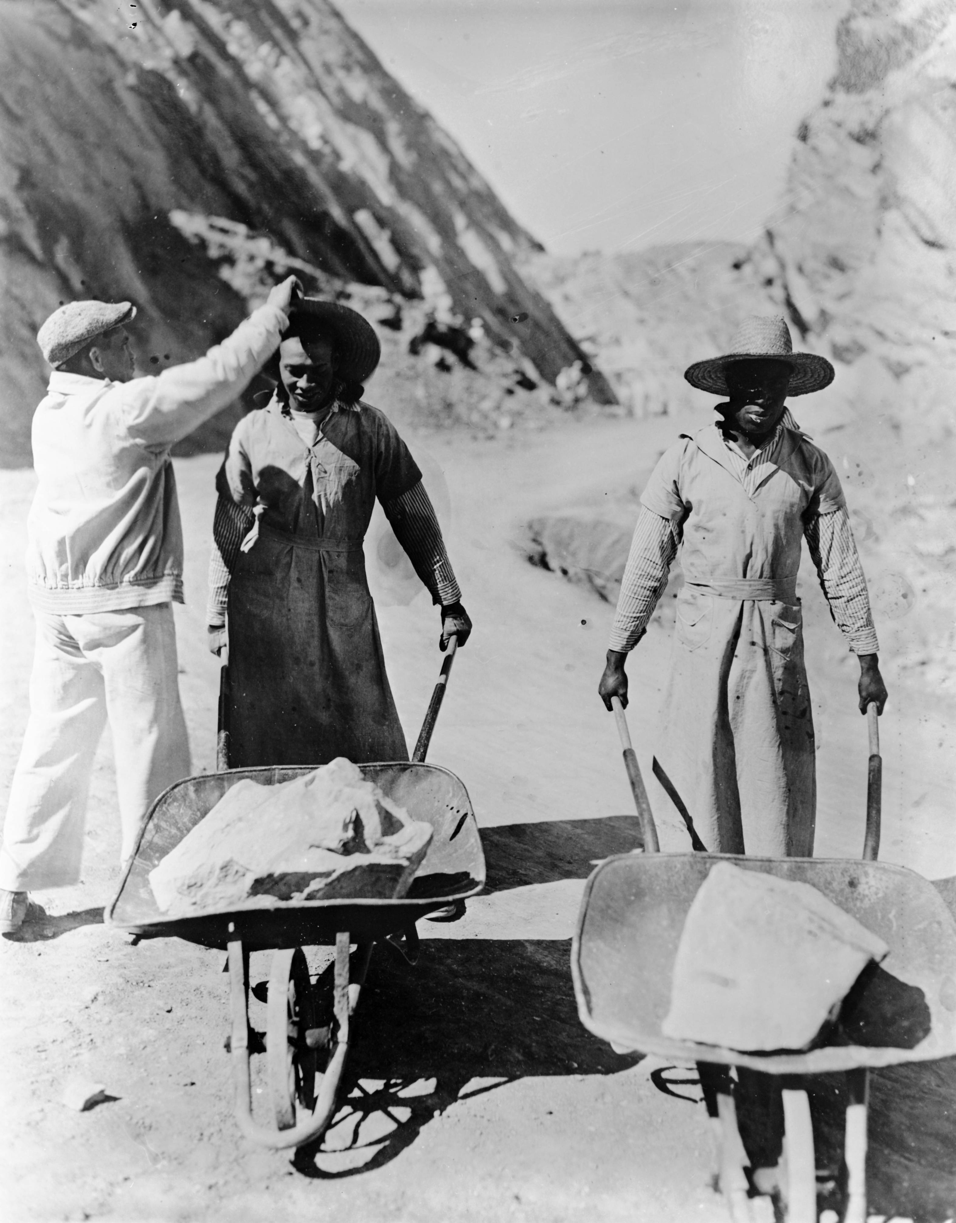 Black men in dresses and straw hats at the State Penitentiary in Canon City, Colorado, push wheelbarrows; each contains a large rock. A black man in a golf hat lifts the hat of one of the prisoners. Rock canyon and dirt road are in the background.